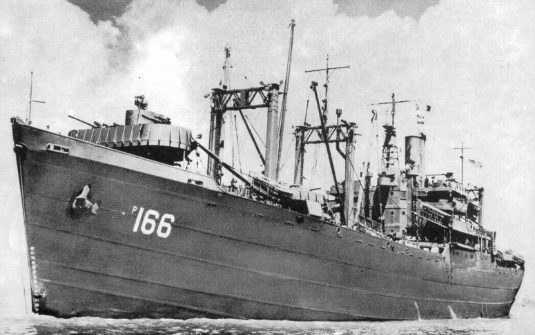 The United States Navy transport